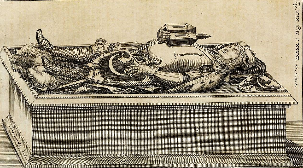 Bolesław III the Generous (1291-1352), Duke of Legnica, Brzeg and Wrocław